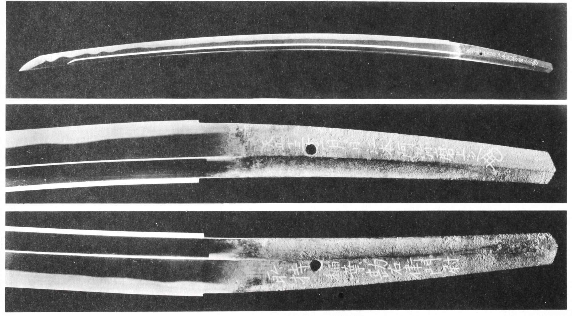 Katana_InabaGo_sword Katana or Inaba Gō Unsigned, Honami Kotoku attributed to Gō Yoshihiro and added an inscription in gold inlay “December 1585 Honami Kotoku tenshō jūsan jūnigatsu-hi Gō-Honami kore wo migakiage, shoji Inaba kaneumon no jō)”; It was handed down in the Inaba clan; curvature: 70.8 cm (27.9 in) , early Nanboku-chō period, 14th century